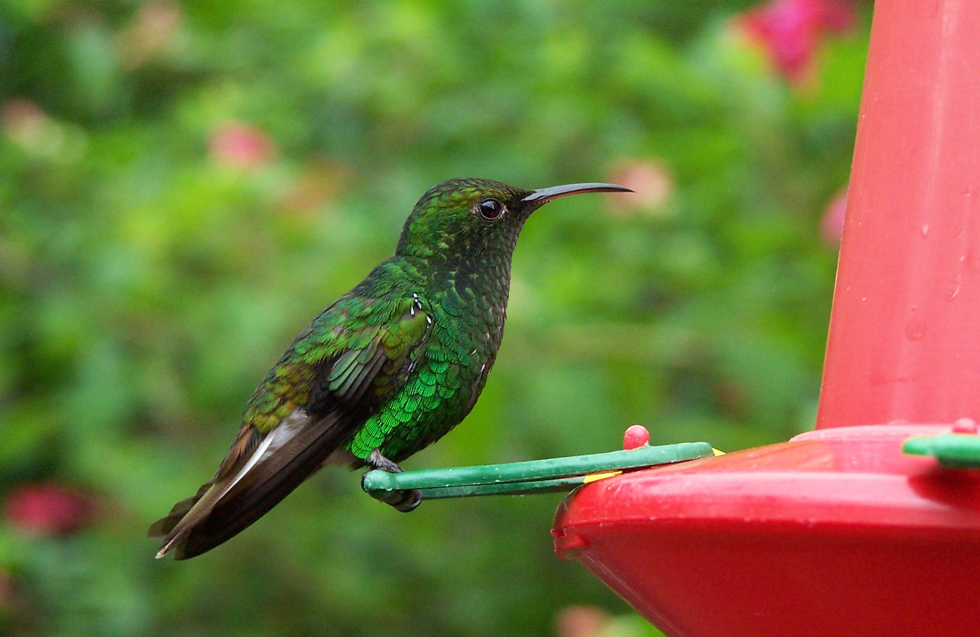 Coppery-headed Emerald